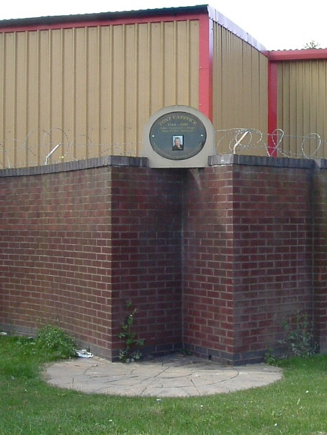 Monument to Tony Capstick at the junction of Rowms Lane and Marriott Road, Swinton, South Yorkshire, opposite the former Swinton Bridge School. Capstick was an entertainer who grew up and started work in the Swinton Bridge area. He is perhaps best known for his single Capstick Comes Home, which got the local dialect word "wazzock" added to the Oxford English Dictionary.